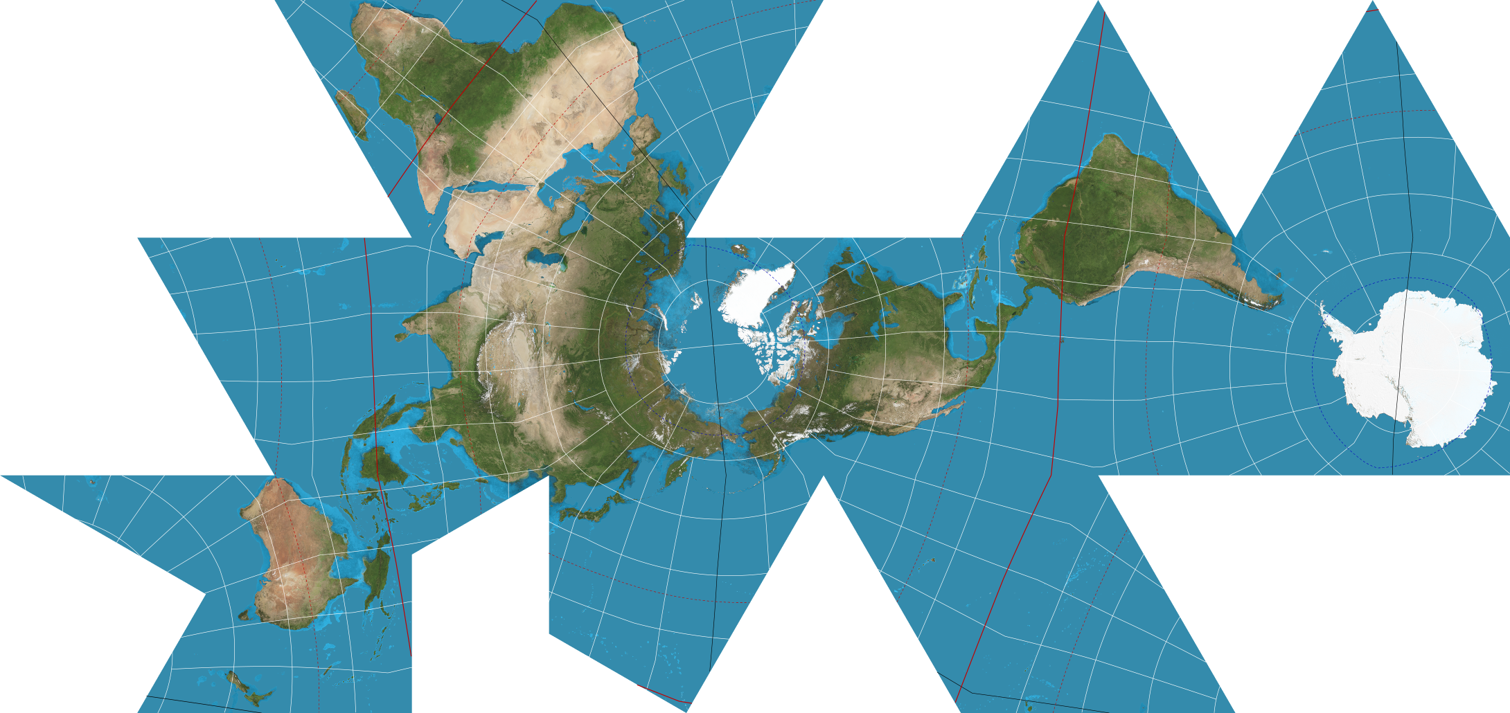 The world on a Dymaxion projection, with 15° graticule. Imagery courtesy NASA’s Earth Observatory, with modifications by Mapthematics LLC.